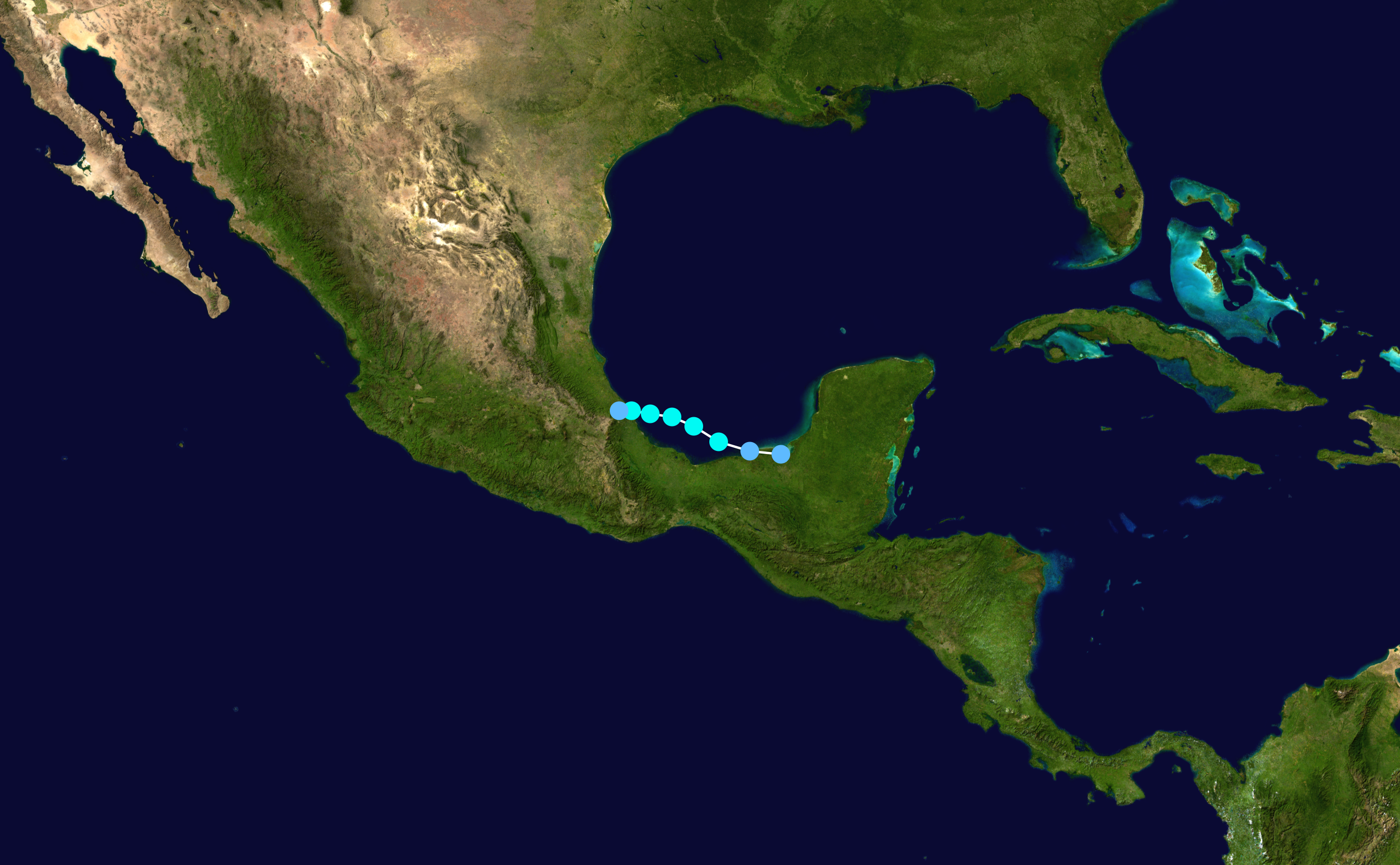 Track map of Tropical Storm Marco of the 2008 Atlantic hurricane season. The points show the location of the storm at 6-hour intervals. The colour represents the storm's maximum sustained wind speeds as classified in the Saffir–Simpson scale (see below), and the shape of the data points represent the nature of the storm, according to the legend below. Saffir–Simpson scale Tropical depression≤38 mph≤62 km/h Category 3111–129 mph178–208 km/h Tropical storm39–73 mph63–118 km/h Category 4130–156 mph209–251 km/h Category 174–95 mph119–153 km/h Category 5≥157 mph≥252 km/h Category 296–110 mph154–177 km/h Unknown Storm type Tropical cyclone Subtropical cyclone Extratropical cyclone / Remnant low / Tropical disturbance / Monsoon depression